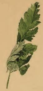 Stainton’s Natural History of the Tineina (1855–1873): Depressaria albipunctella a leaf of Anthriscus sylvestris folded by larva